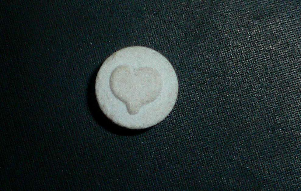 2C-B Pill.2cb pill